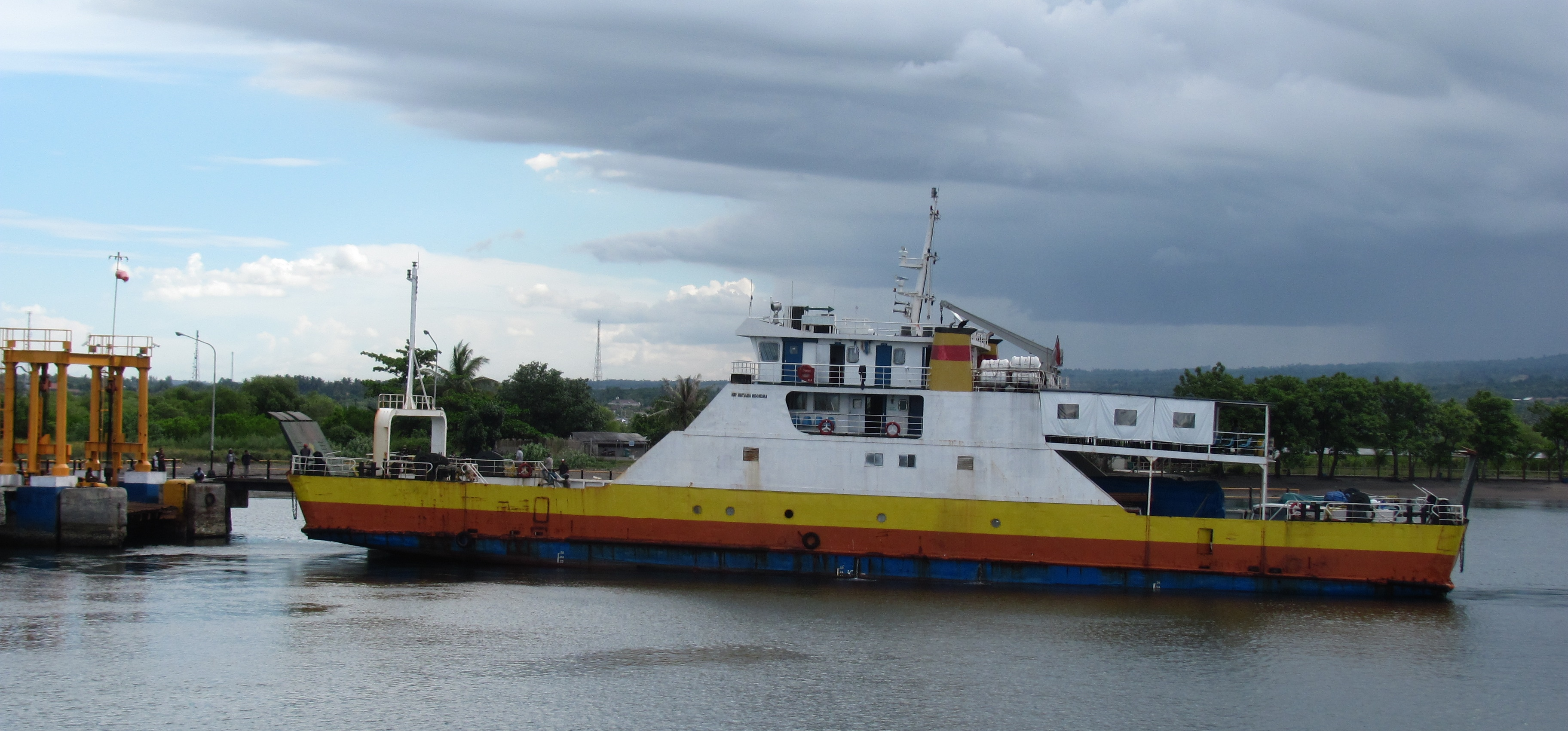 Harbour of Labuhan Lombok, Lombok, Indonesia